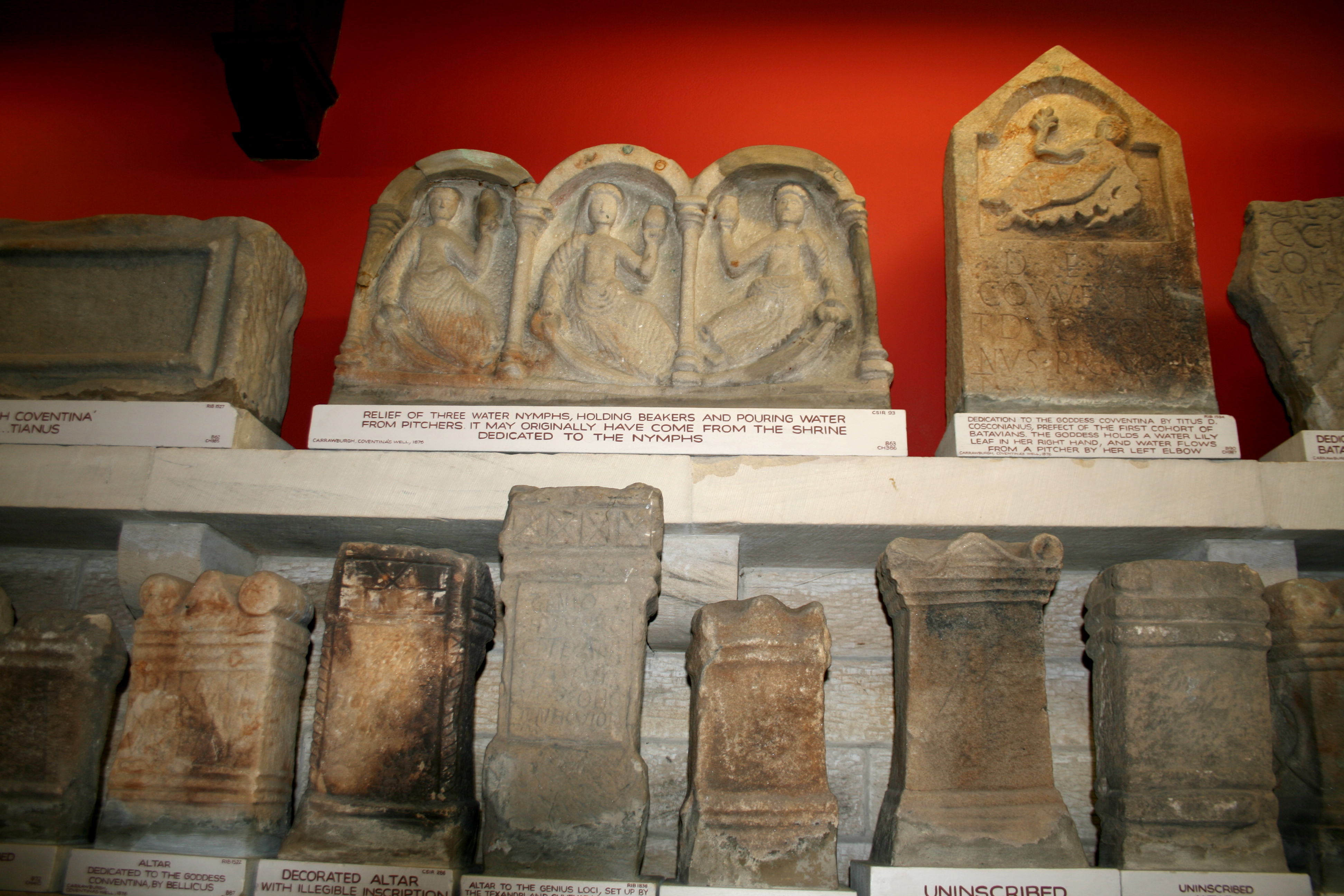 iphoto - Museum at Chesters Roman Fort